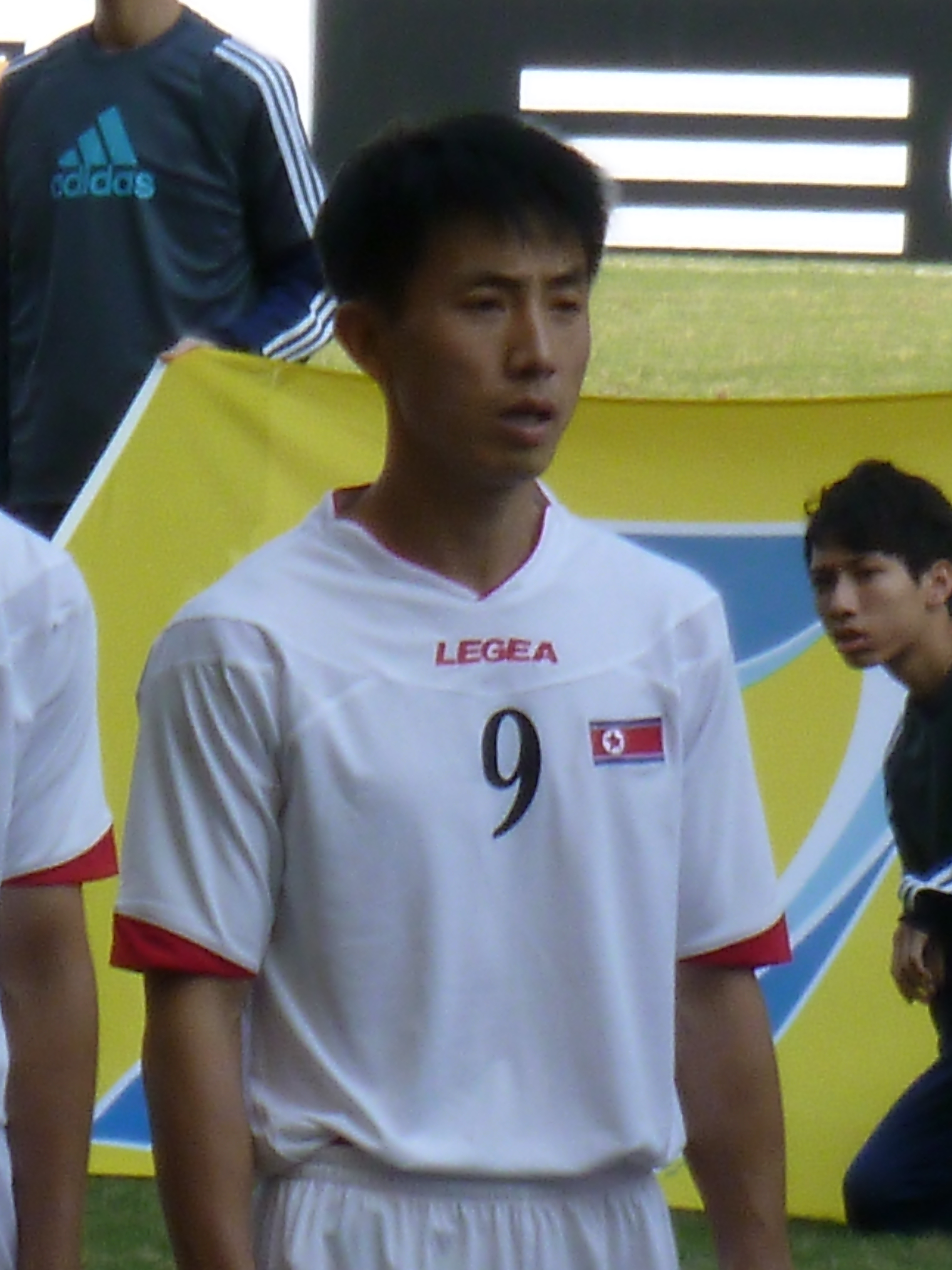 Pak Song-Chol (9 Dec 2012, EAFF East Asian Cup 2013 Preliminary Competition Round 2, Hong Kong vs DPR Korea, Hong Kong Stadium) 中文（香港）: 朴成哲 (9 Dec 2012, 2013東亞盃外圍賽第二圈, 香港 vs 朝鮮, 香港大球場)